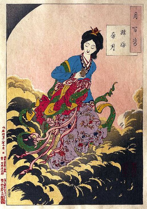 Chang'e flies to the moon (Tsukioka Yoshitoshi)